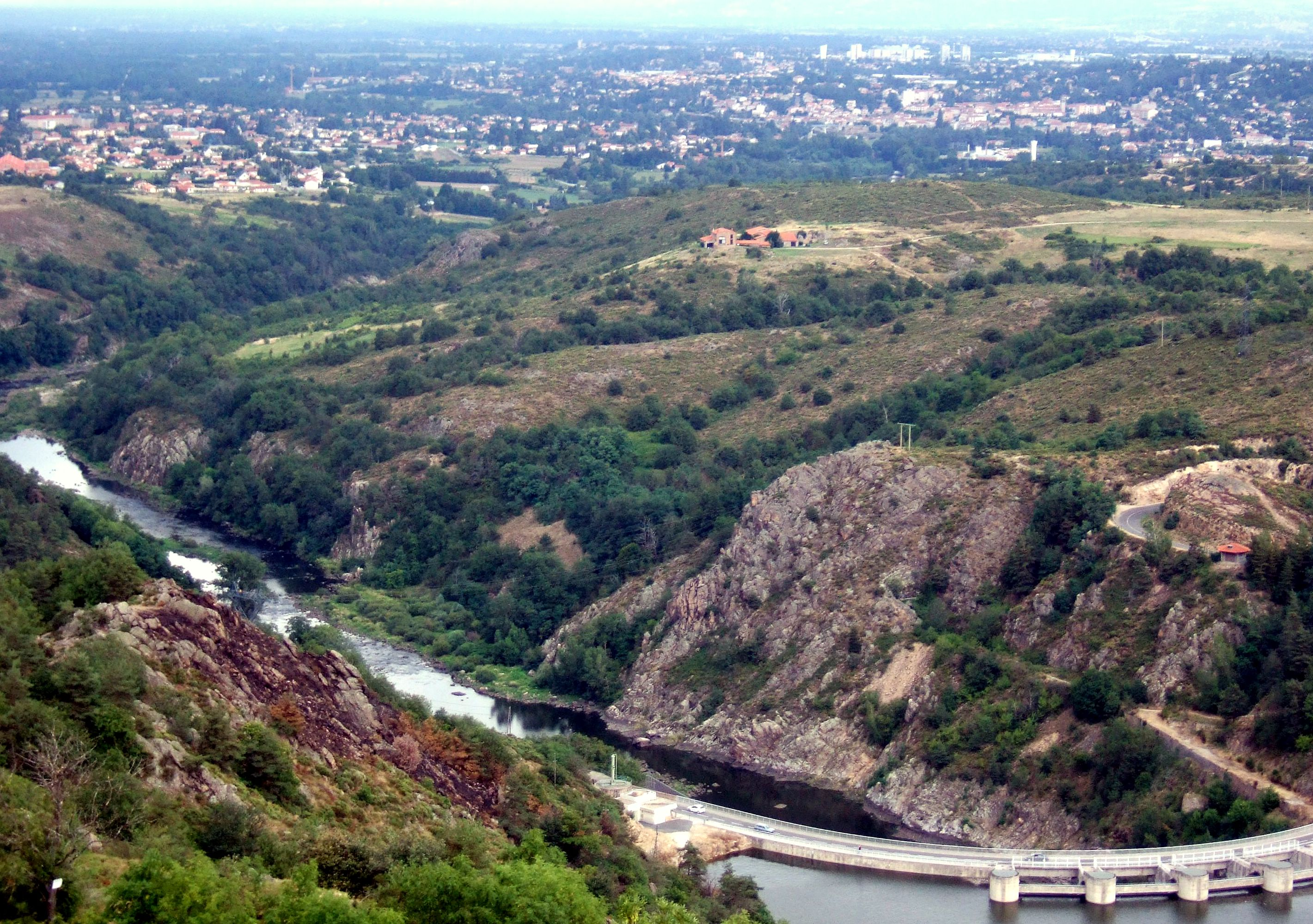 The Grangent dam, taken from the tower at the Château d'Essalois, in the Loire departement of France. Taken by me.